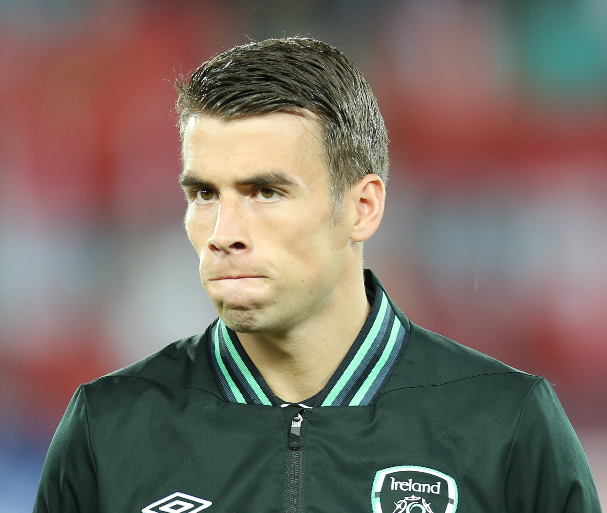 2014 FIFA World Cup qualification (UEFA), Group C: Republic of Ireland national football team at 10. September 2013 before the match against the Austria national football team (0:1) in the Ernst-Happel-Stadion in Vienna. Here: Séamus Coleman, irish defender The making of this work was supported by Wikimedia Austria. For other files made with the support of Wikimedia Austria, please see the category Supported by Wikimedia Österreich.